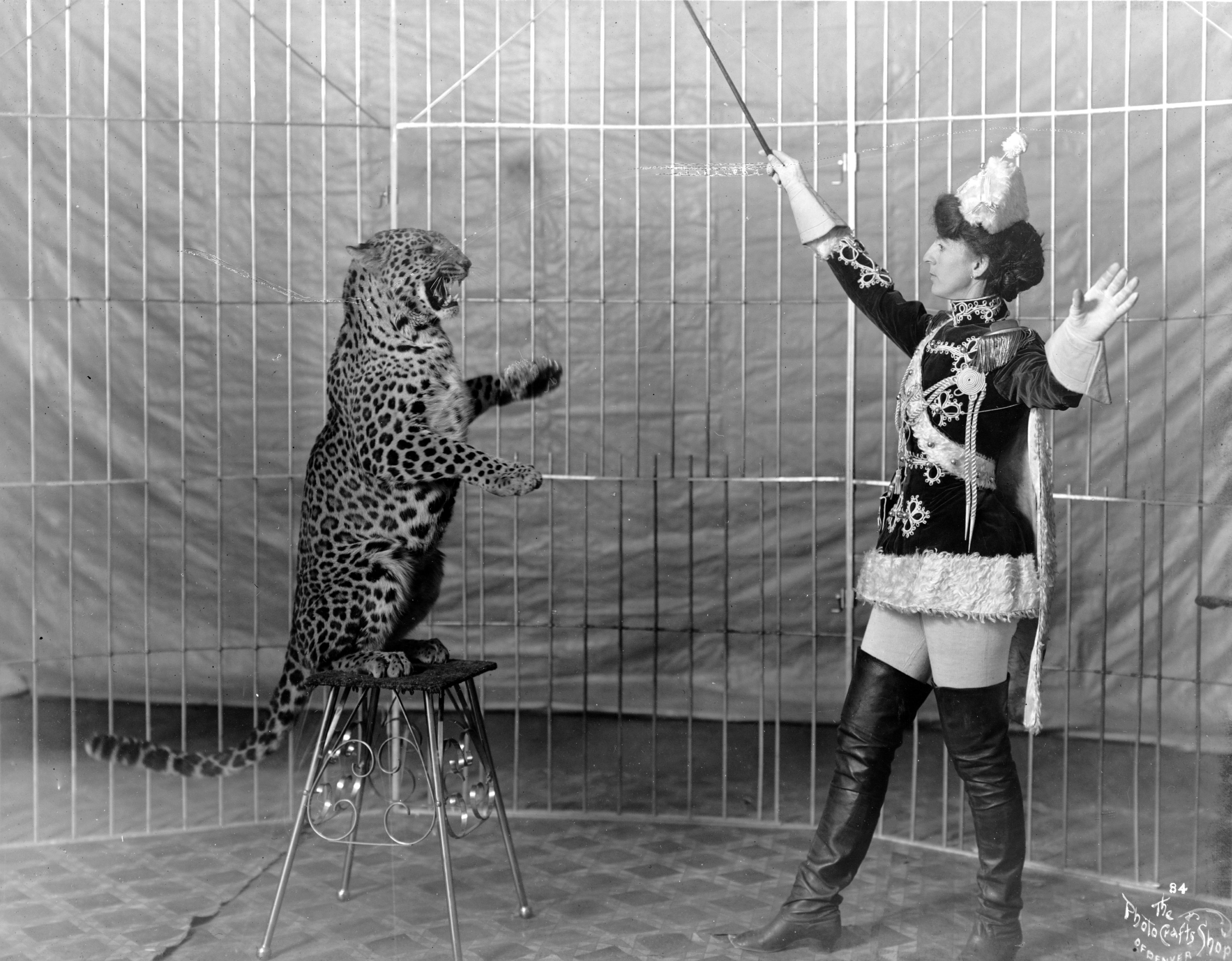 Female animal trainer and leopard. Caption bottom center: VALLECITA'S LEOPARDS. № 84 [Vallecita's Leopards, Number 84] - Cropped out of Commons version, in LoC version